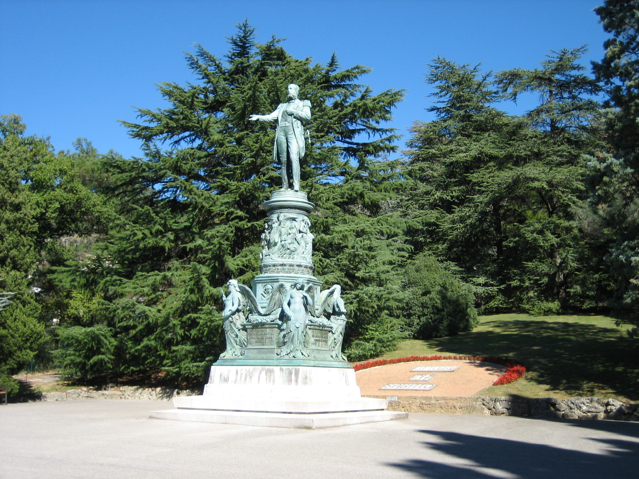 Statue of Archduke Ferdinand Maximilian of Austria, Emperor of Mexico; located in the park of Miramare Castle near Trieste, Italy; sculpture by Johannes Schilling (1875)